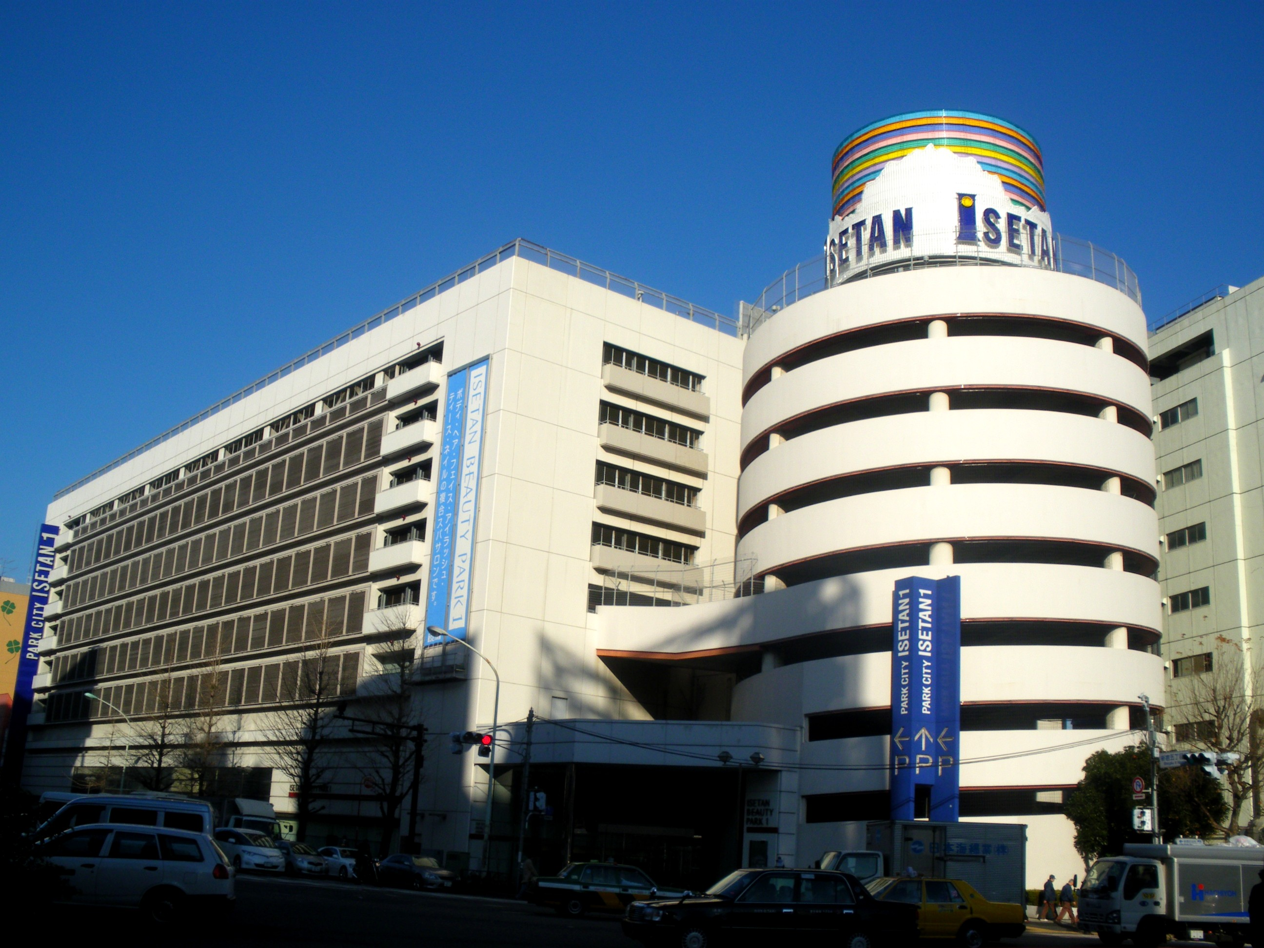 A photo of PARK CITY ISETAN1,an annex of ISETAN department store Shinjuku store.Shinjuku,Shinjuku-ku,Tokyo,Japan.